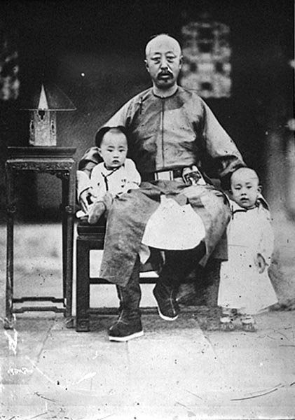 Prince Yi Xuan (1840-1891) . The two boys are his sons Zaixun (left) and Zaifeng (right)